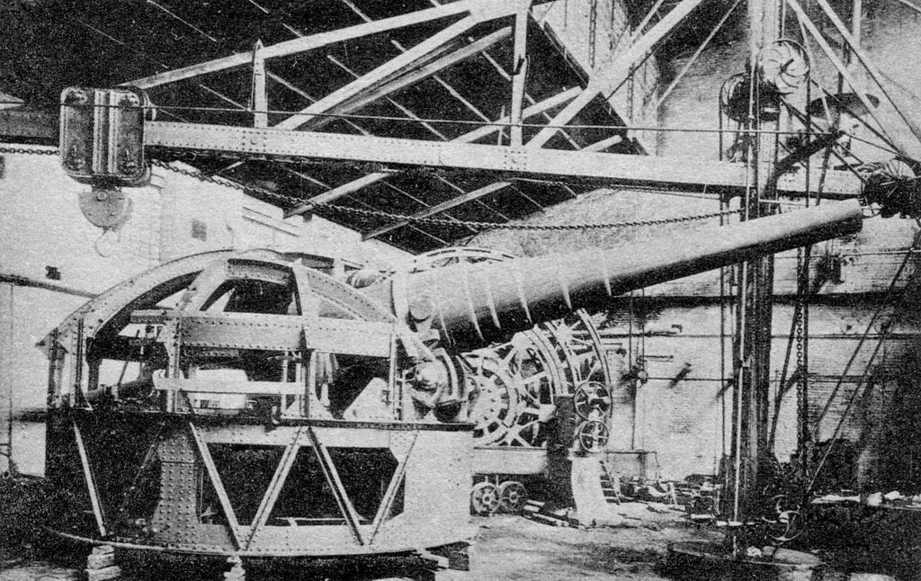 Barbette system of the Imperial Russian battleship Imperator Aleksandr II.